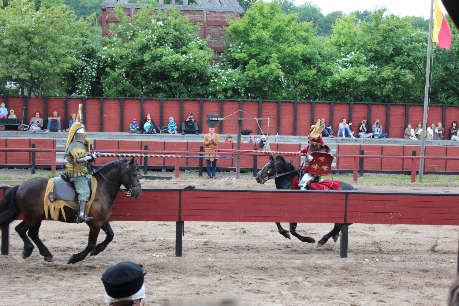 Jousting at Middelaldercentret in June 2013